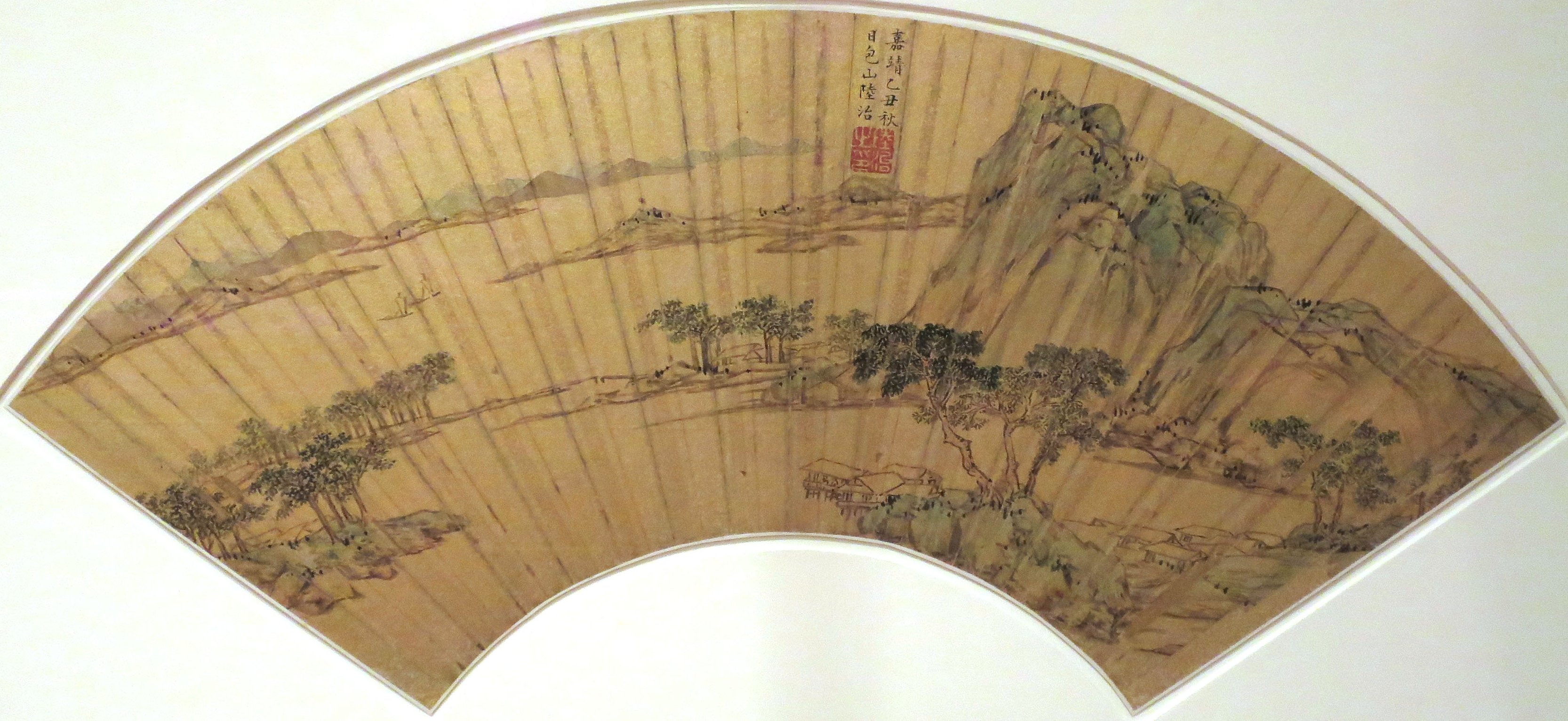 Landscape by Lu Zhi (Lu Chih), 1565, ink and color on gold paper, Honolulu Museum of Art, accession 2490.1